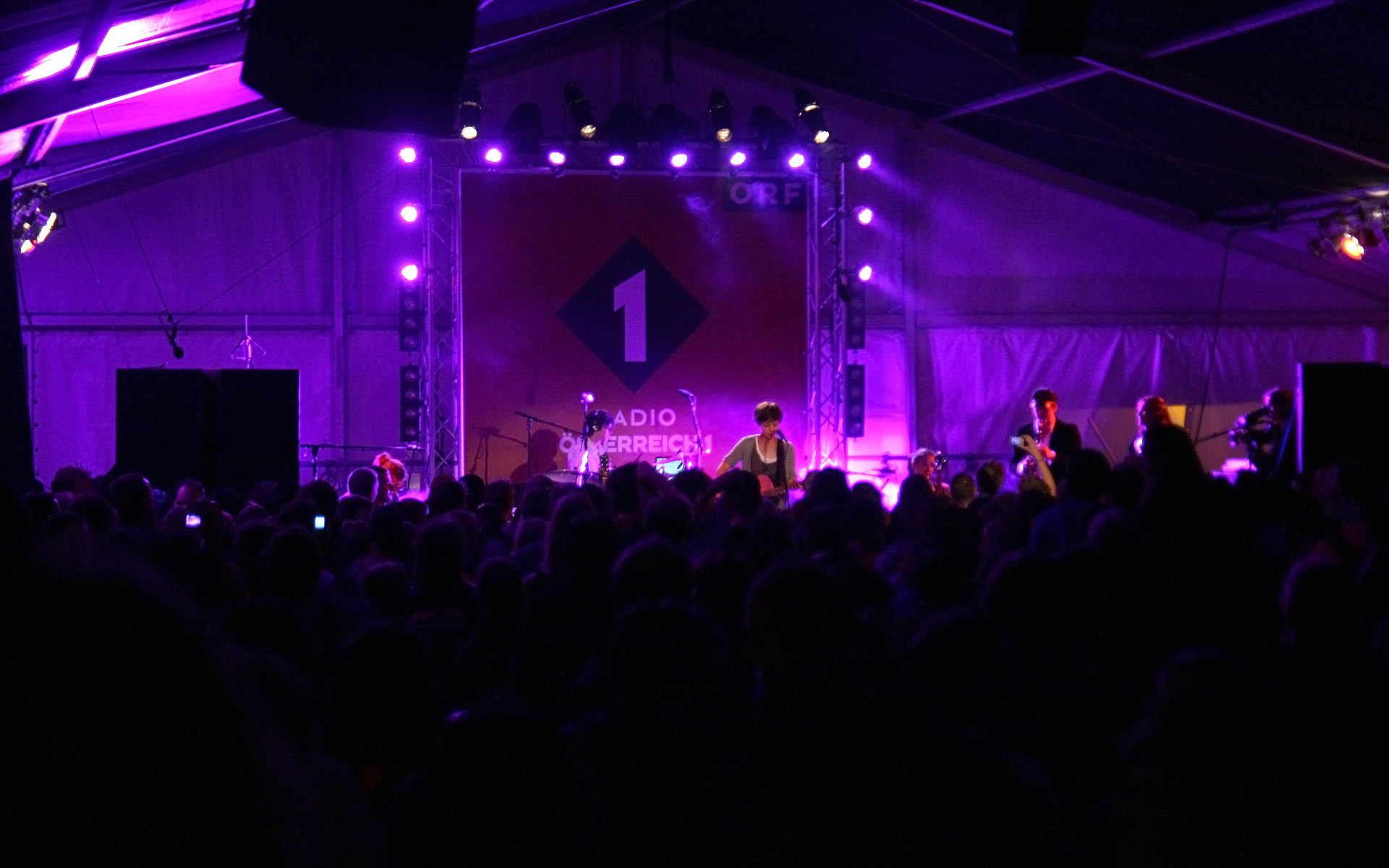 Concert of Clara Luzia at the Donauinselfest in Vienna